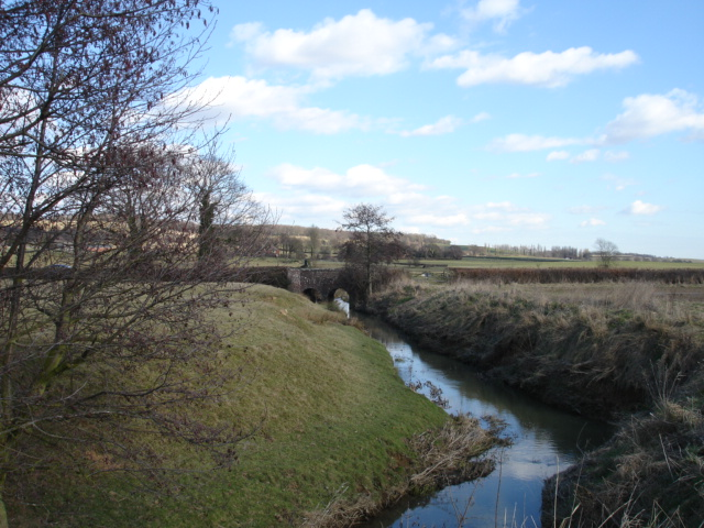 River Tillingham Beckley East Sussex. River Tillingham under the Hundred House Bridge just in south east corner of grid square.